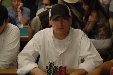 Maciek Gracz in 2005 World Series of Poker - Rio Las Vegas.